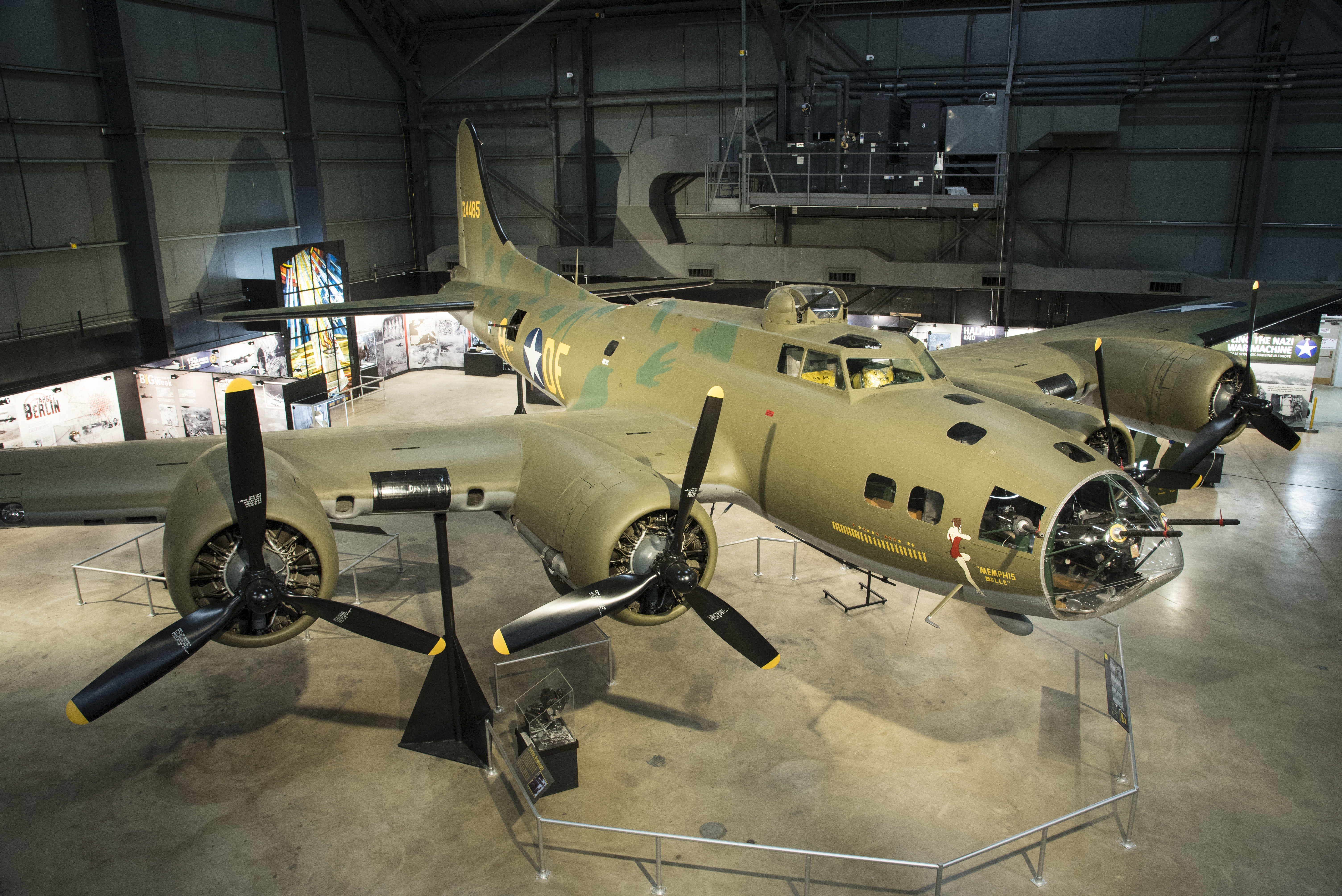 Boeing B-17F Memphis Belle fully restored